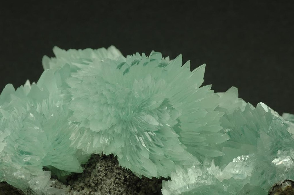 Tarbuttite Locality: Skorpion Mine, Rosh Pinah, Lüderitz District, Karas Region, Namibia (Locality at ) Field of view 3cm. Photo: Tim Welting, specimen: Leon Hupperichs.